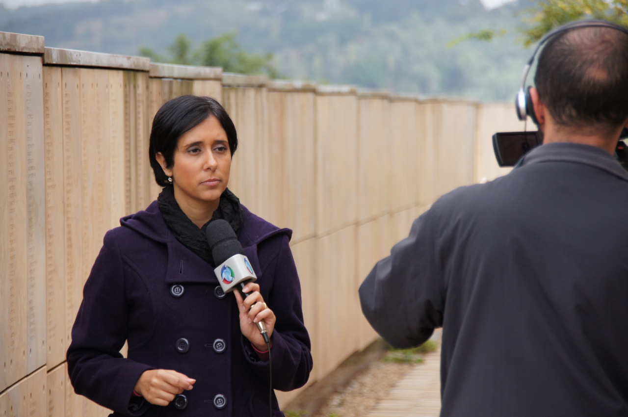 Journalist Adriana Bittar at Pretoria